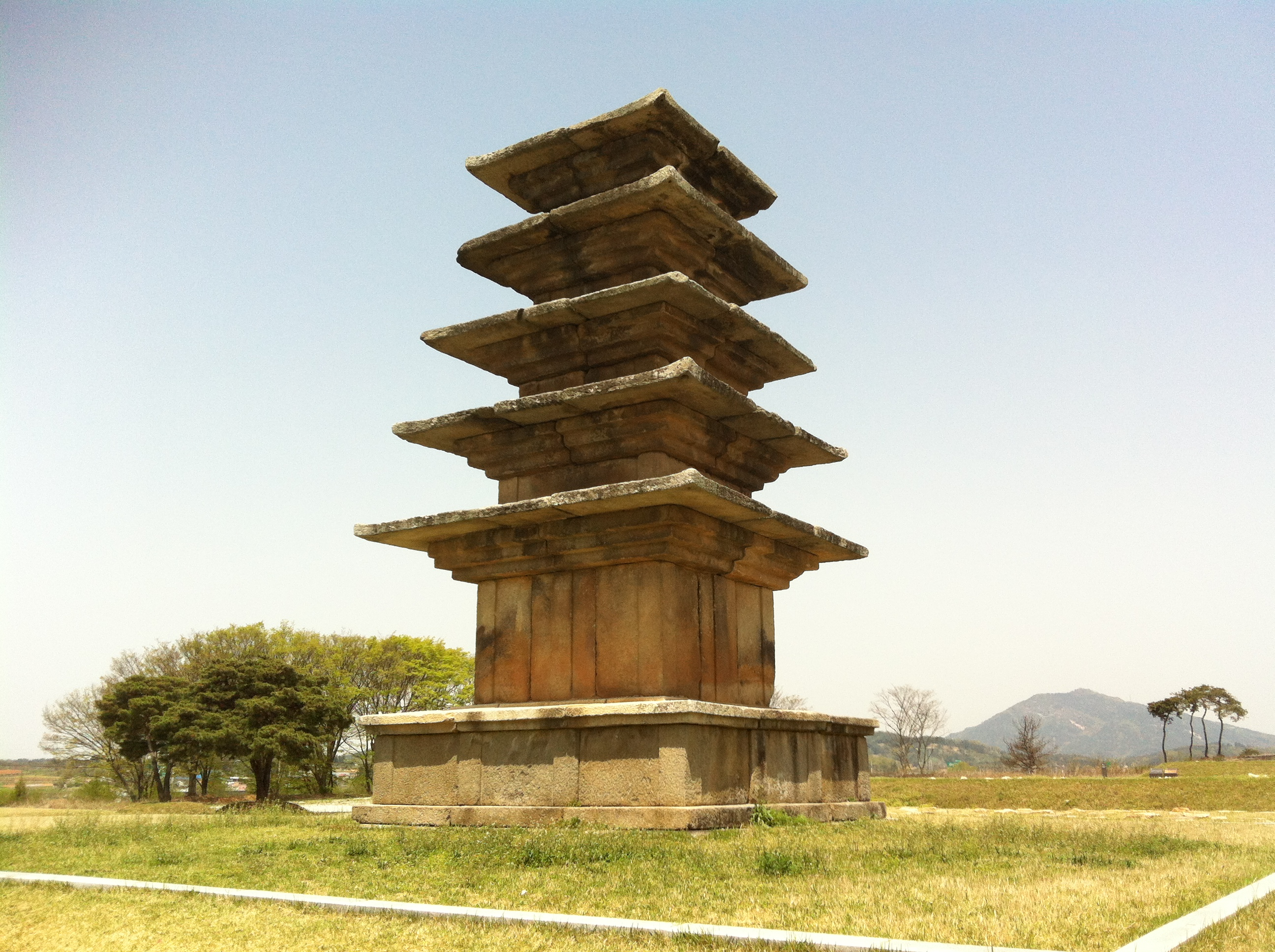 Wanggungri 5 story stone pagoda, Korean national treasure